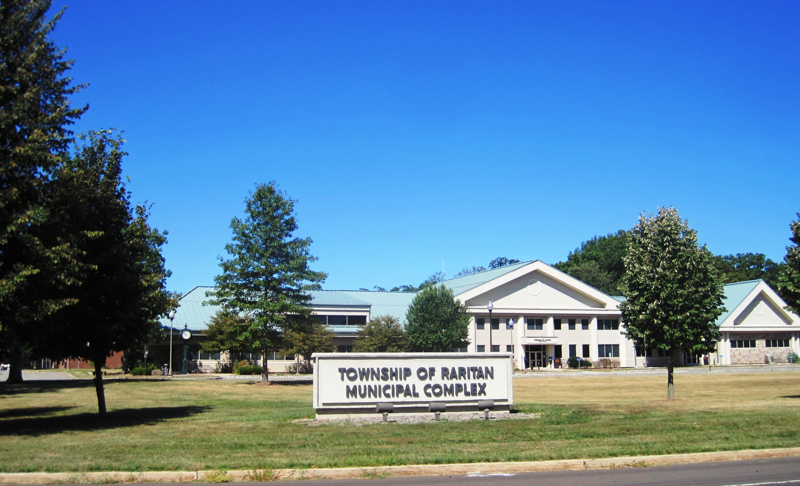 Front of the Raritan Township Municipal Complex in Raritan Township, New Jersey. Photo taken along County Route 523.